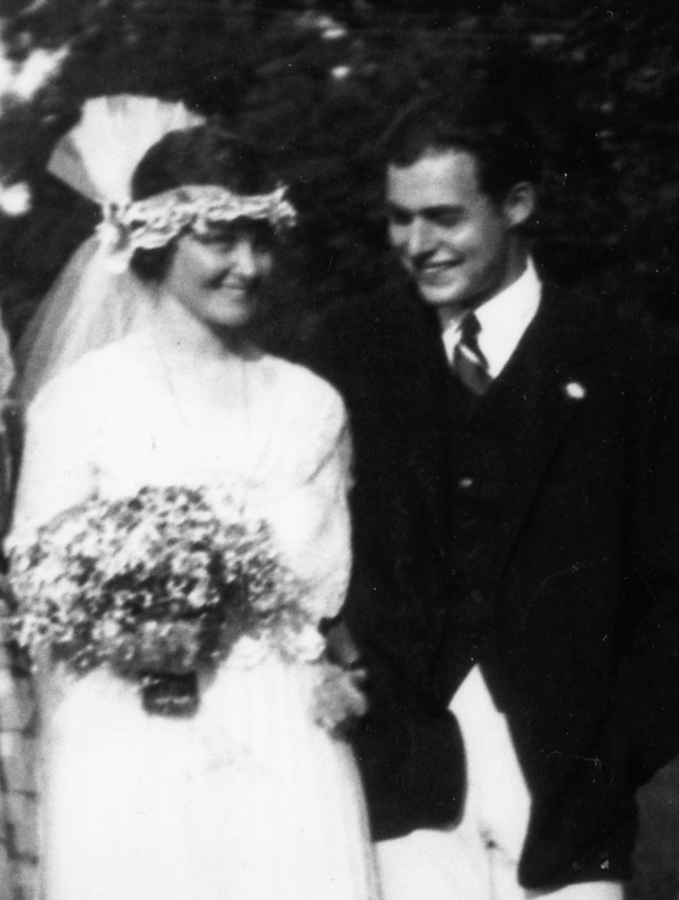 Photograph of Ernest Hemingway when he married Hadley.